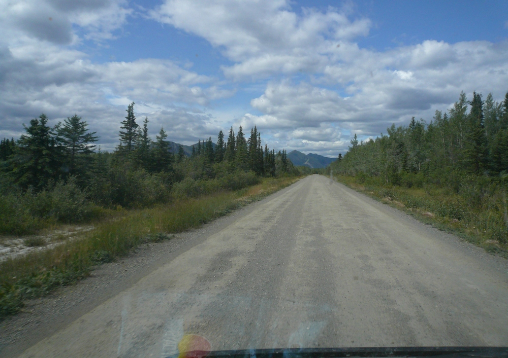 campbell road